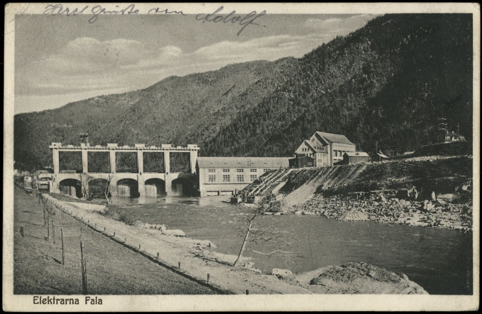 Postcard of Fala.